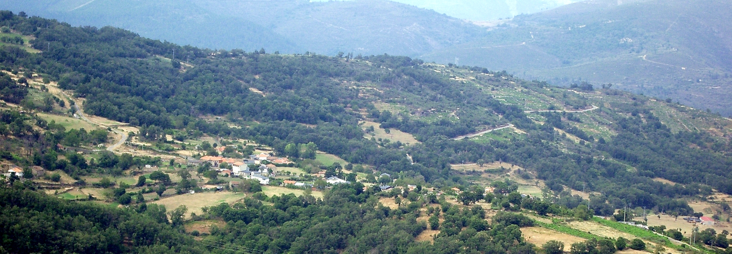 Panorimical view of the parish Sobrado de Trives located in the municipality of A Pobra de trives in the province Ourense (Spain).